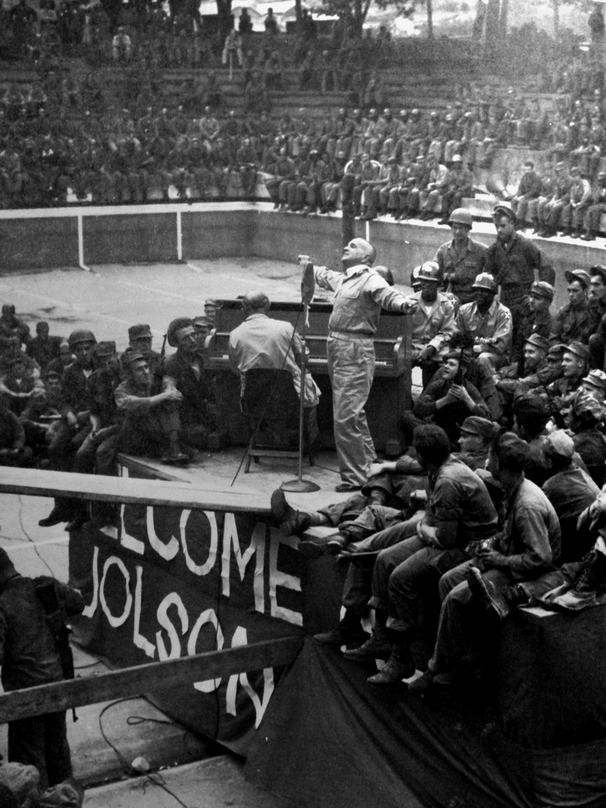 Photo of Al Jolson performing in Korea, 1950